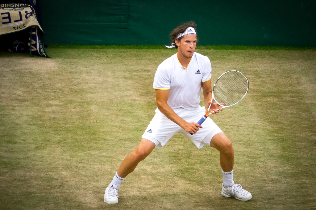 Dominic Thiem - Wimbledon 2017